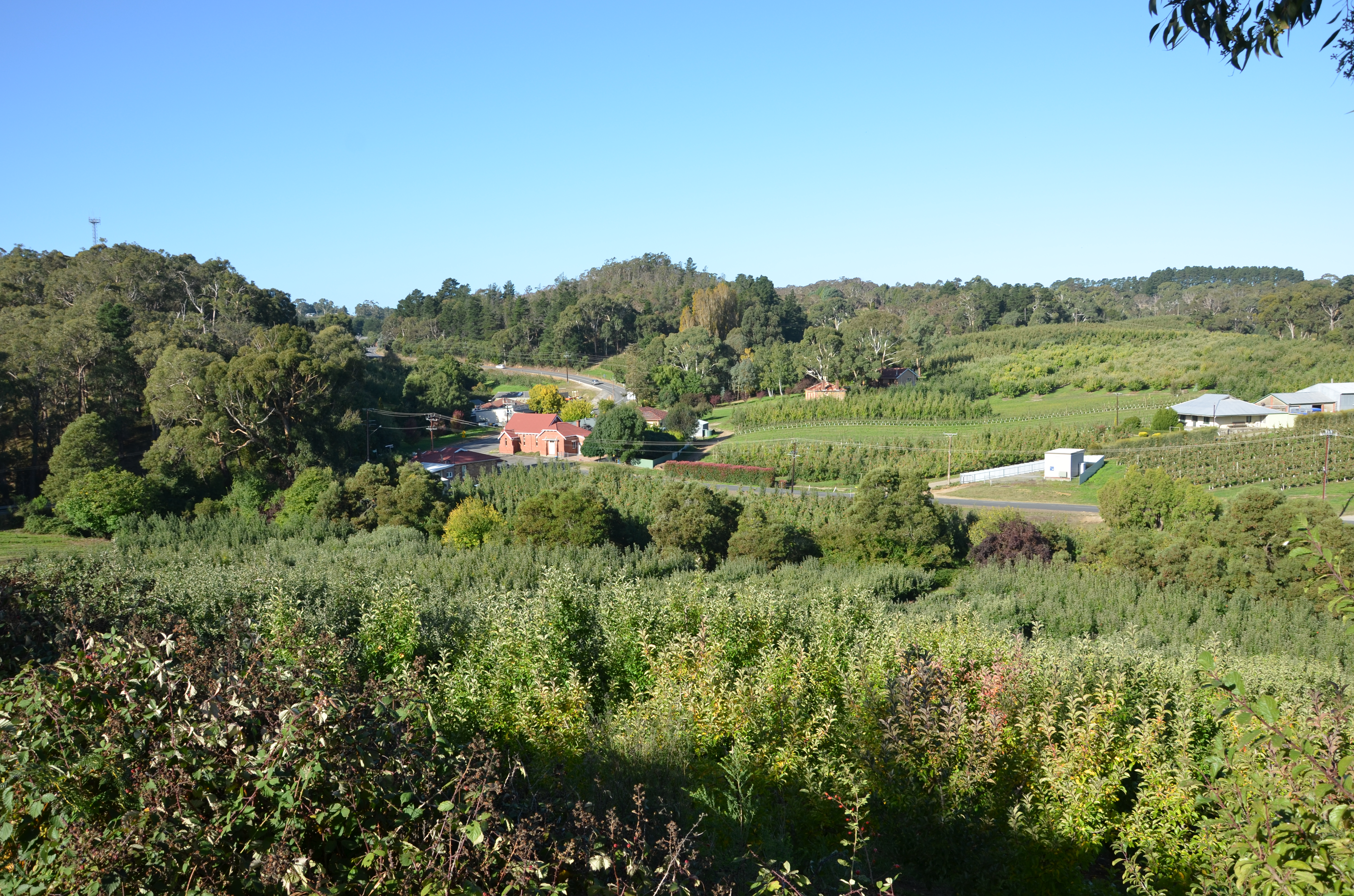 Township of Lenswood in the Adelaide Hills, South Australia. Taken from near Lenswood Primary School. Swamp Road is at right of frame, Lobethal Road continues over the range.